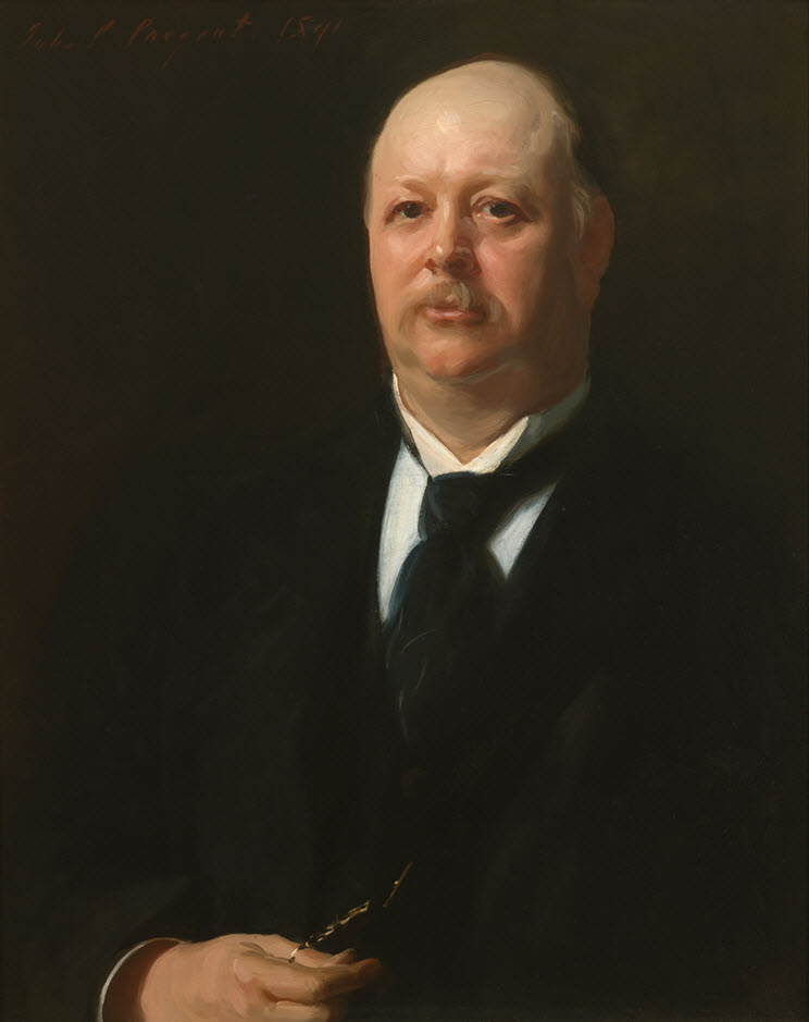 Thomas Brackett Reed, Speaker of the U. S. House of Representatives